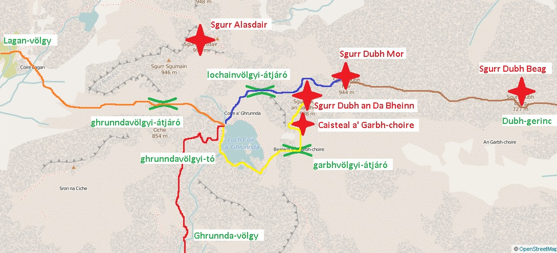 Trails around Sgurr Dubh Mor.